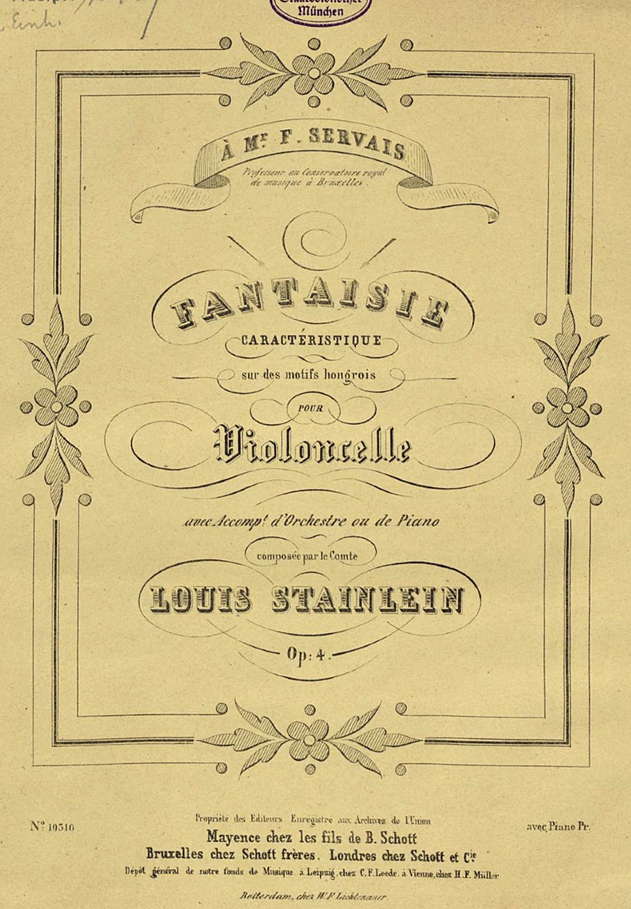 Titelblatt einer Komposition von Graf Ludwig von Stainlein, 1851